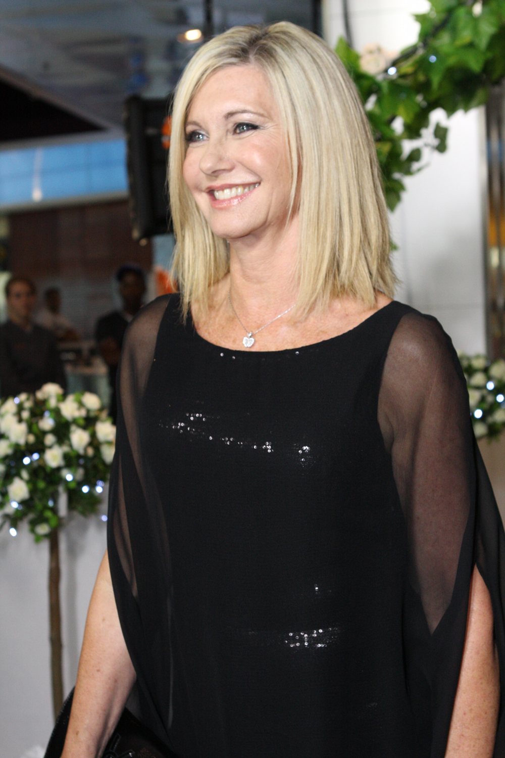 A Few Best Men Red Carpet Movie Premiere In Sydney, Australia A Few Best Men enjoyed its Sydney red carpet premiere earlier this evening at Bondi Junction's Event Cinema. In essence, it's a a comedy about a groom and his three best men who travel to the Australian outback for a wedding. The flick has numerous Sydney based media men and women tipping that this may be just the start of a reinvigoration of Olivia Newton-John's acting career, but its really too early to know for sure. Maybe O-N-J and her agent know something we don't. Twilight Eclipse hunk Xavier Samuel stars as the film's hapless bridegroom. British thespians Kris Marshall (Death At A Funeral) Kevin Bishop (Spanish Apartment), and Australian comedy star Rebel Wilson was there, as was Laura Brent (Chronicles of Narnia), Steve Le Marquand (Beneath Hill 60) and Tangle actor Tim Draxl. Even local MP Malcolm Turnbull and wife Lucy showed up in support. The flick, which was filmed in Sydney and the Blue Mountains, is hoped to be a return to form for Elliott, who has had mixed success since his 1994 smash hit The Adventures of Priscilla: Queen of the Desert. It's quite an unlikely acting platform for Newton-John, who many film industry commentators say her last decent film role was alongside John Travolta in Two of a Kind back in 1983. Elliott told the media that the Aussie singer/actress has fitted in well with the rest of the cast. "She's great. Everyone's coming together really well and she's really getting into it," he said. A Few Best Men opens in cinemas nationally on January 26, 2012. Director: Stephan Elliott Writers: Dean Craig Stars: Rebel Wilson, Olivia Newton-John and Xavier Samuel Websites A Few Best Men official website Icon Film Distribution Event Cinemas Nix Co Eva Rinaldi Photography Flickr Eva Rinaldi Photography Splash News Music News Australia